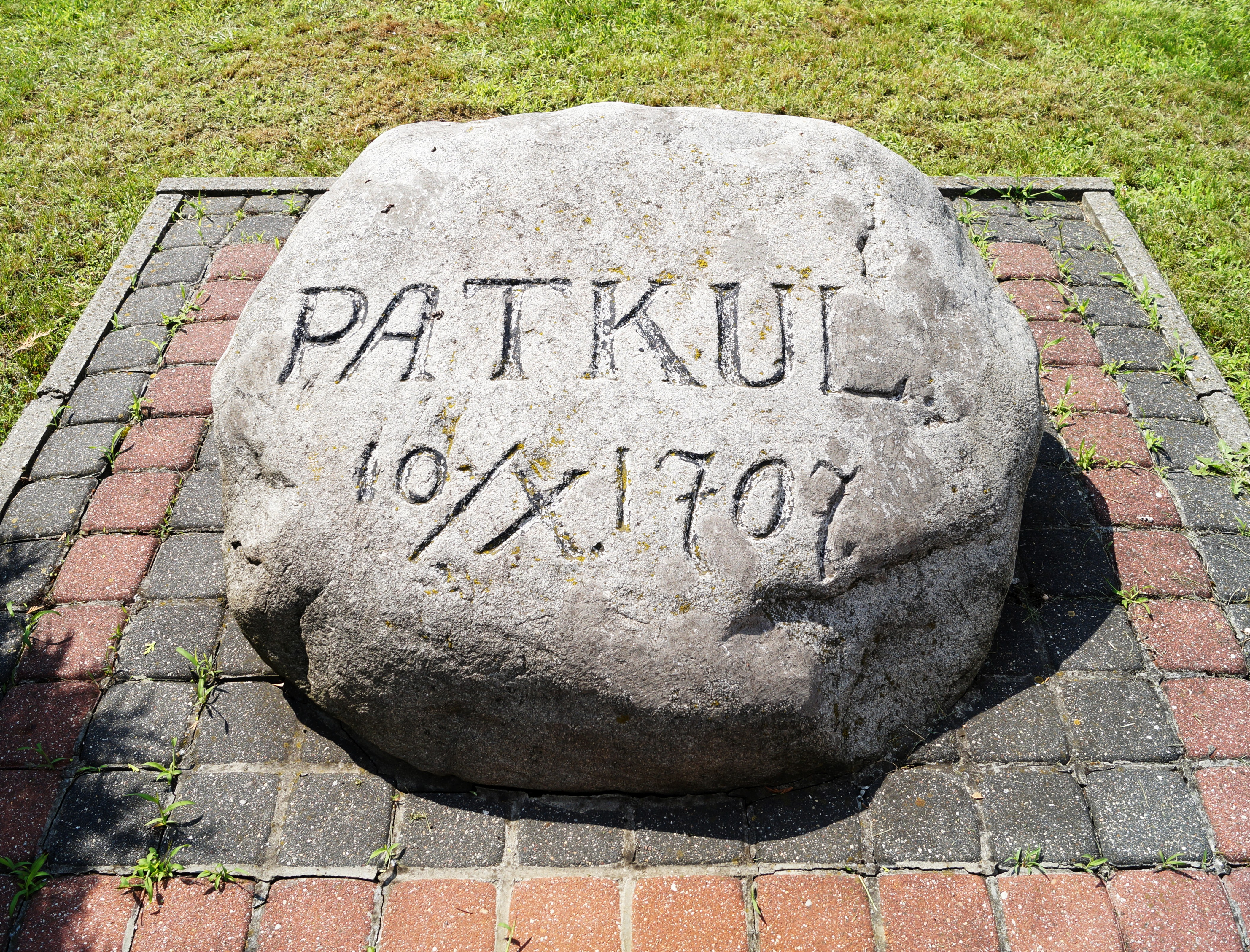 Stone commemorating the place of execution John Reinhold Patkul in Kazimierz Biskupi